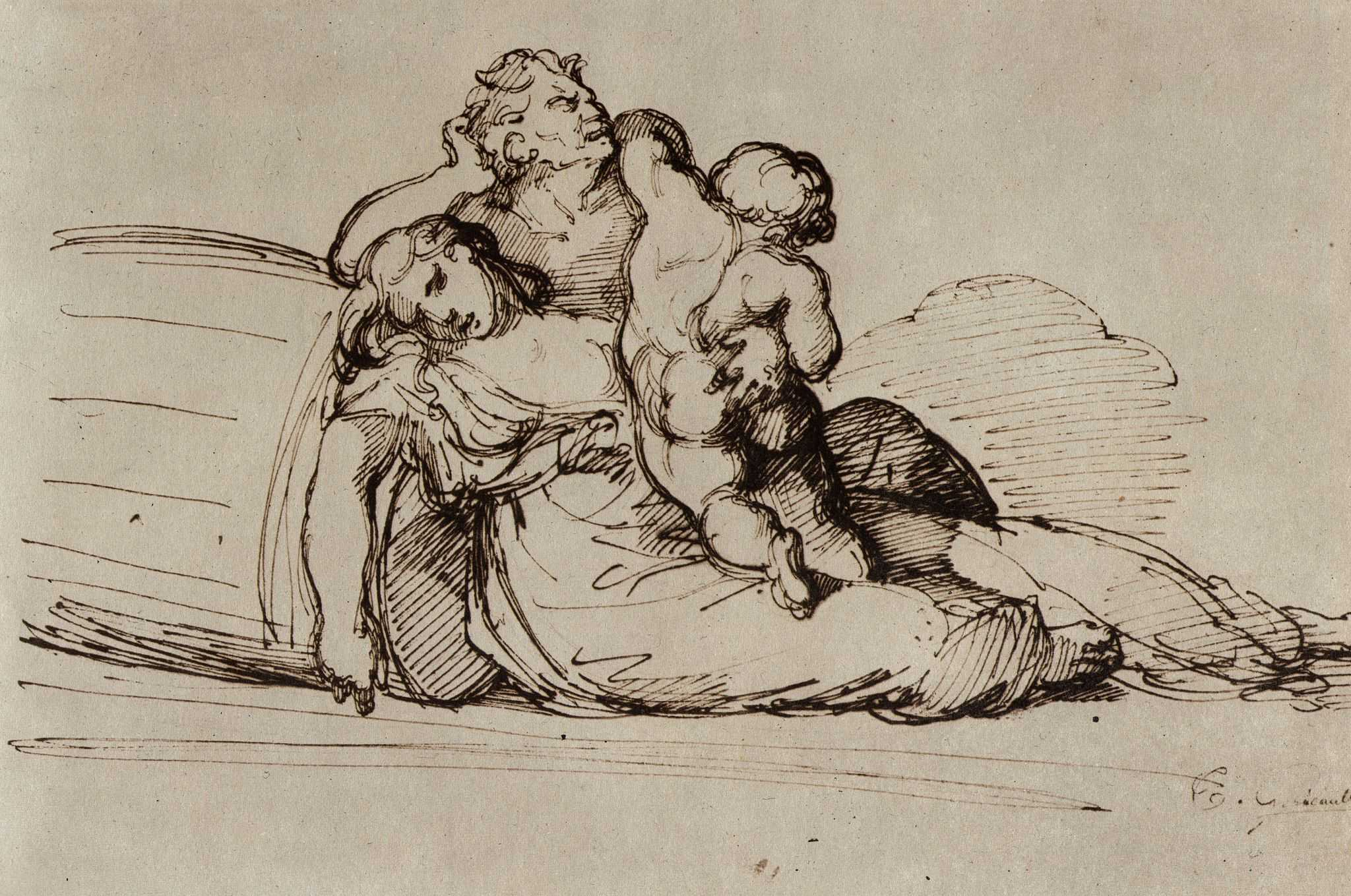 Théodore Géricault: Study for 'the Raft of the Medusa', ink over pencil on paper, 203x299 cm